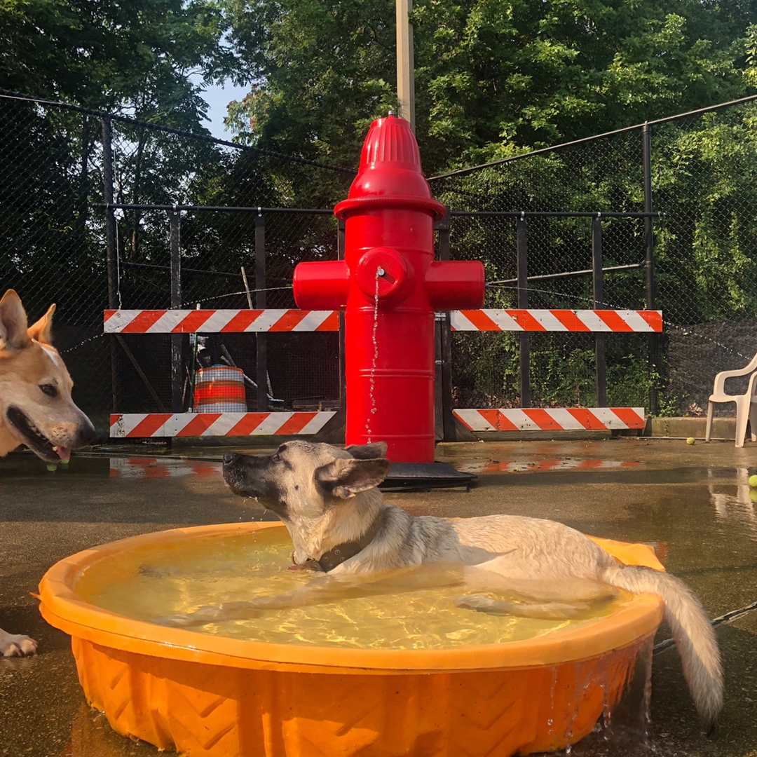 7 foot tall fire hydrant sprays water into three wading pools